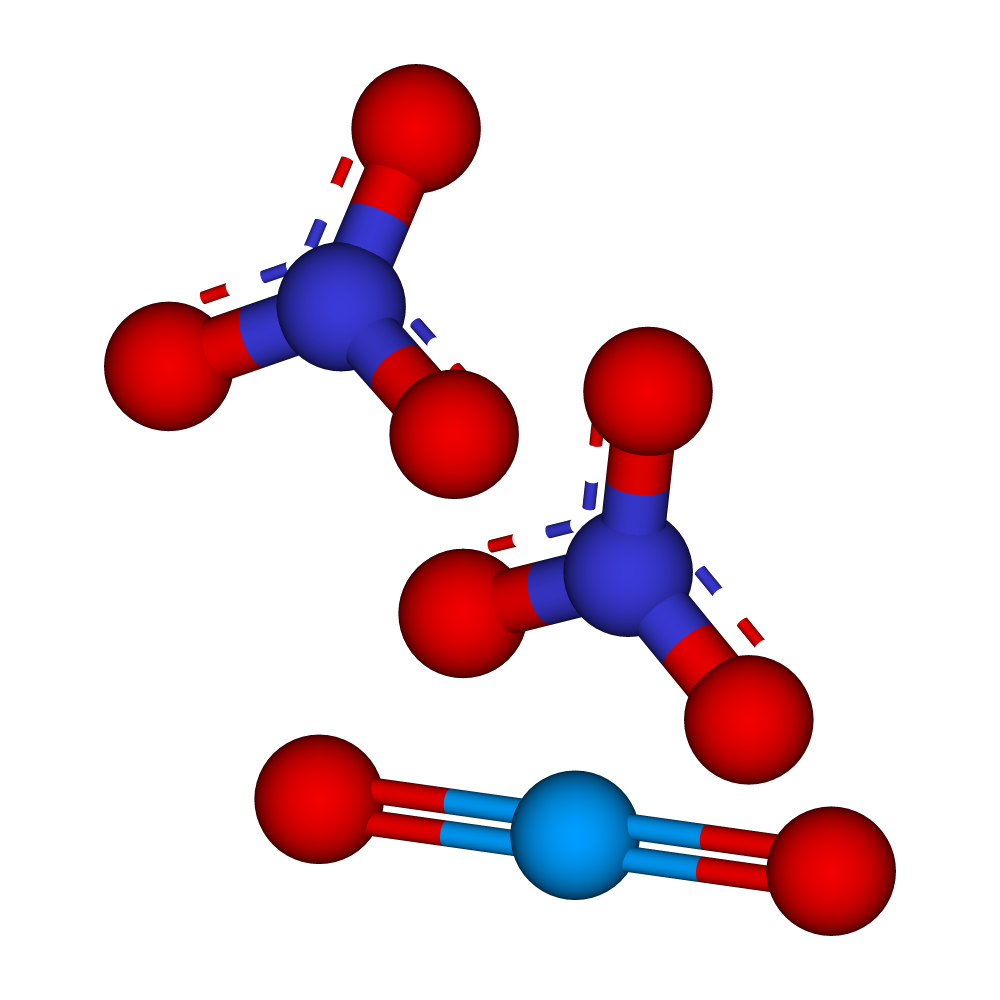 Uranyl nitrate